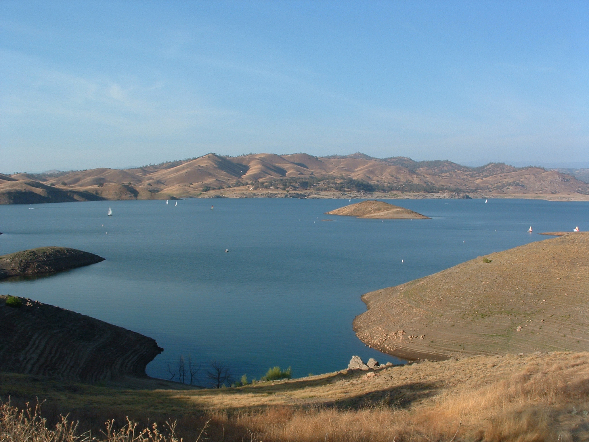 This is a picture of Millerton Lake, a lake near the town of Friant in Fresno County, California, about 15 miles north of downtown Fresno. The lake is formed by Friant Dam on the San Joaquin River. The picture was taken by me on September 12, 2003. I give permission for the picture to be used with attribution under the GFDL and Creative Commons.